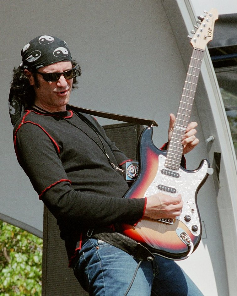 Bruce Kulick of Grand Funk Railroad performing at Gulfstream Park in Hallendale, FL.